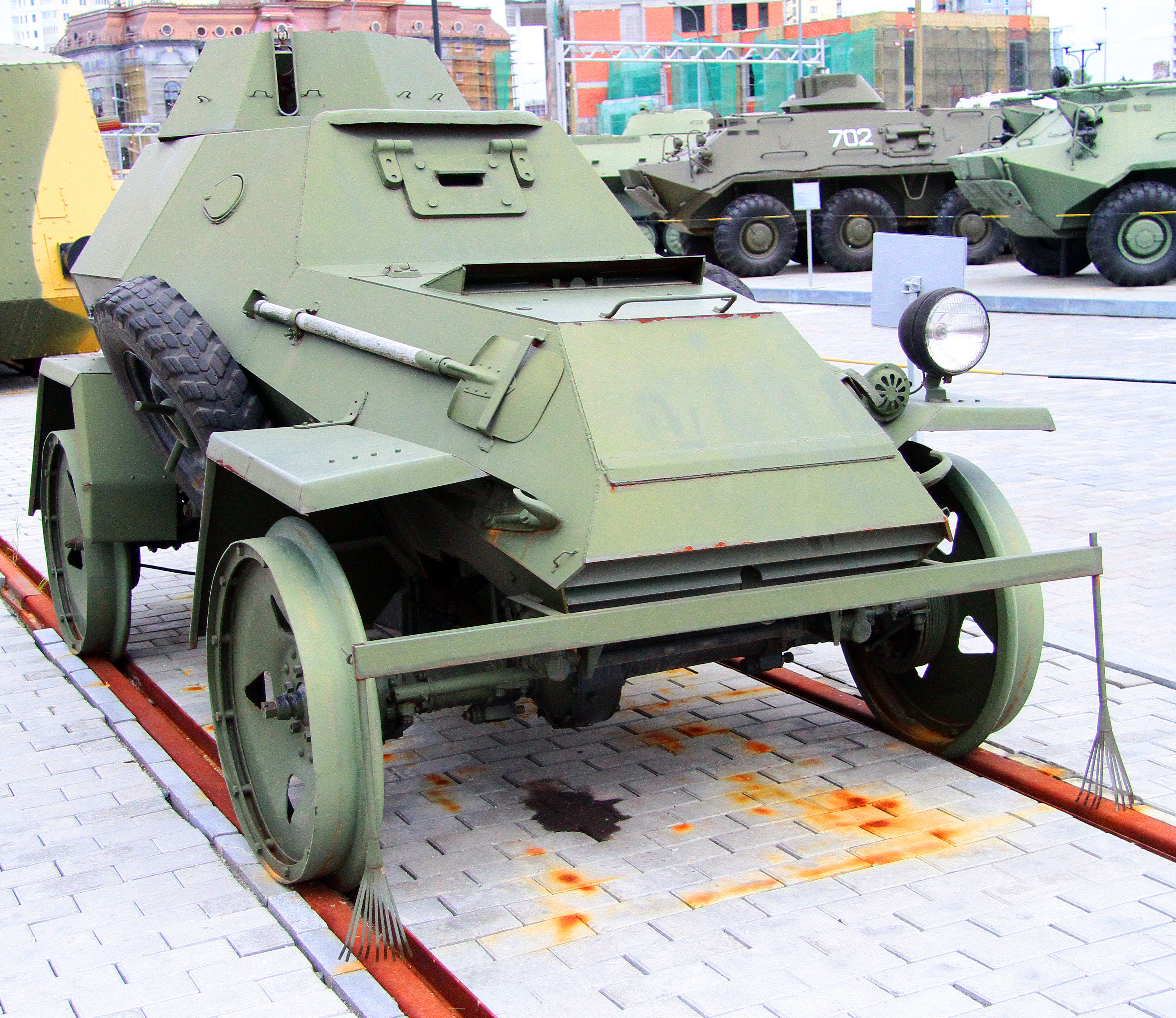 Front view of the BA-64 railroad version replica pictured in "Museum of military and automobile vehicles" situated in the city of Verkhnyaya Pyshma, Russia.